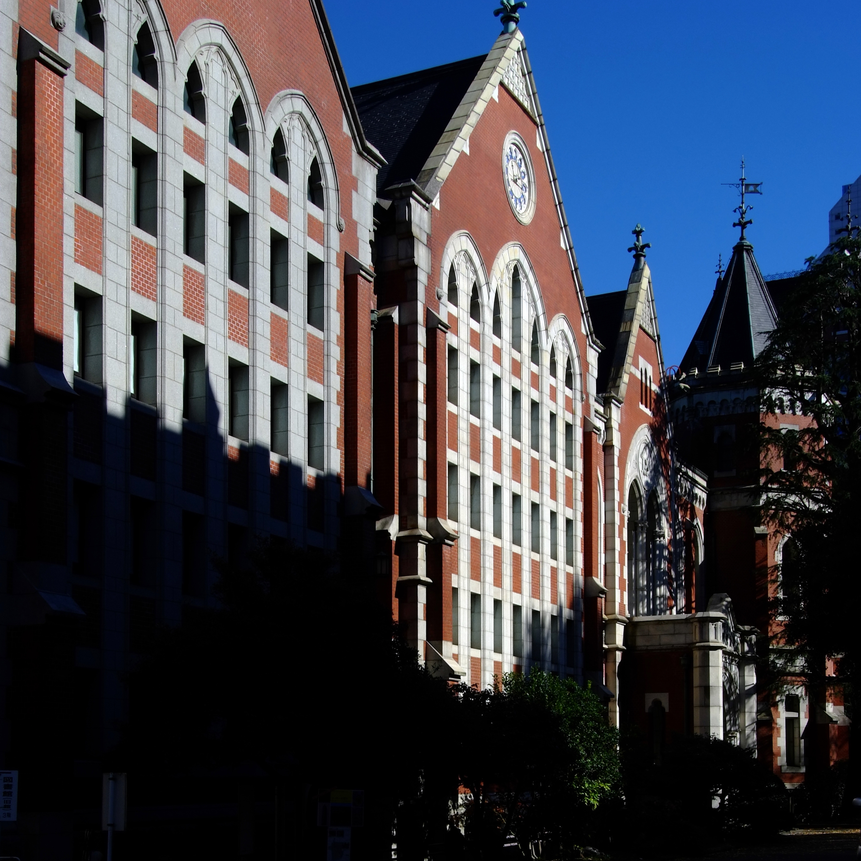 Old Keio University Library, at Mita Tokyo Japan, design by Tatsuzo Sone in 1912.